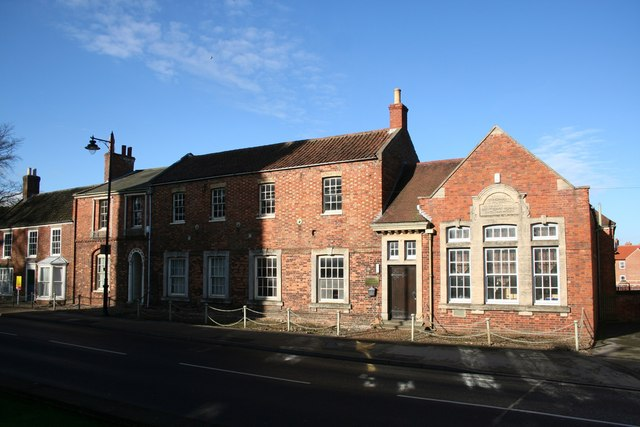 Spilsby Grammar School, near to Spilsby, Lincolnshire, Great Britain. Spilsby Grammar School was founded in 1550 by order of King Edward VI and endowed by the Willoughby family. The School was funded and administered by Foundation Governors until various Education Acts finally gave the Local Education Authority control of both the running of the School and its funding in 1952.